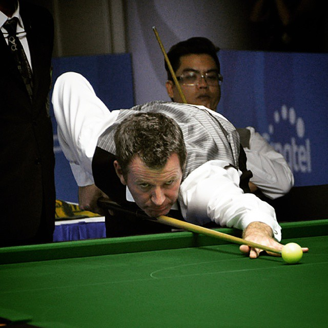 Peter Gilchrist leaves Malaysian opponent Hassan Mohd Reza in his chair for most of his 502-81 win in English Billiards #seagames2015 #teamsingapore